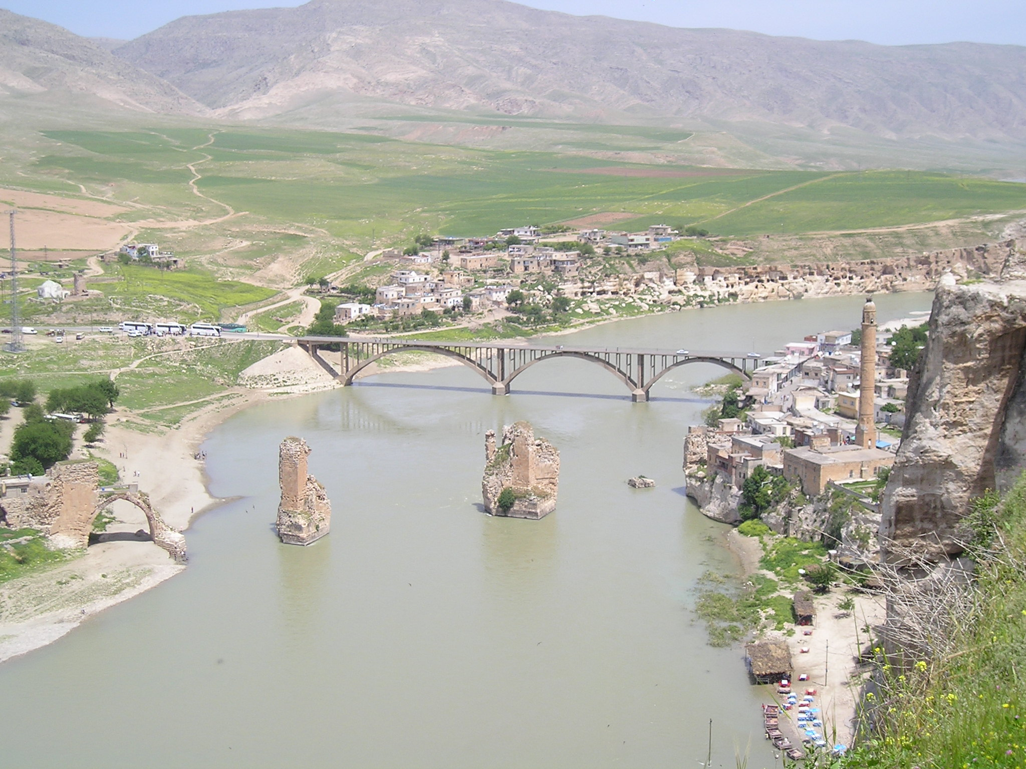 Hasankeyf or Heskîf, Turkey, 2004. The remnants of the old Hasankeyf Bridge alongside the new The Hasankeyf Bridge built by Selim Baysal in 1957. Other version: SQUARE